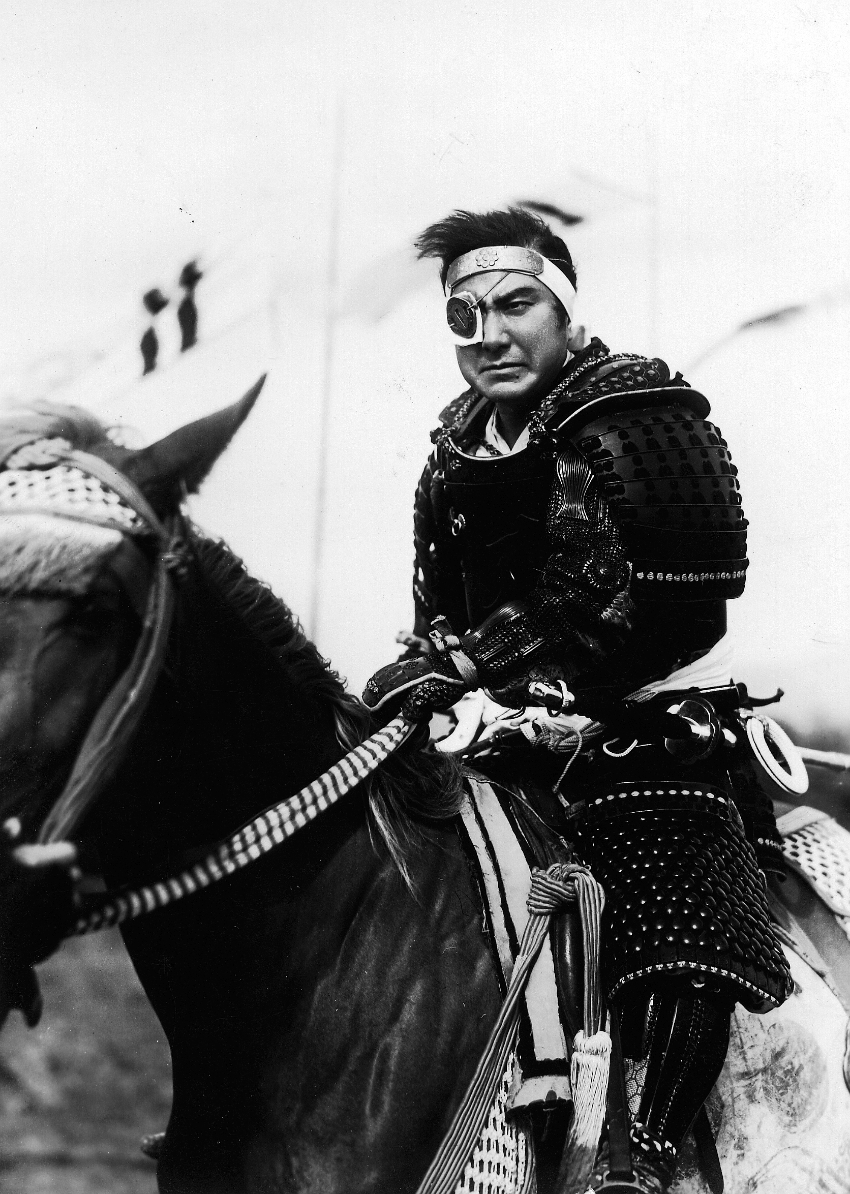 Chiezō Kataoka in Dokuganryū Masamune (独眼龍政宗) directed by Hiroshi Inagaki (1943)